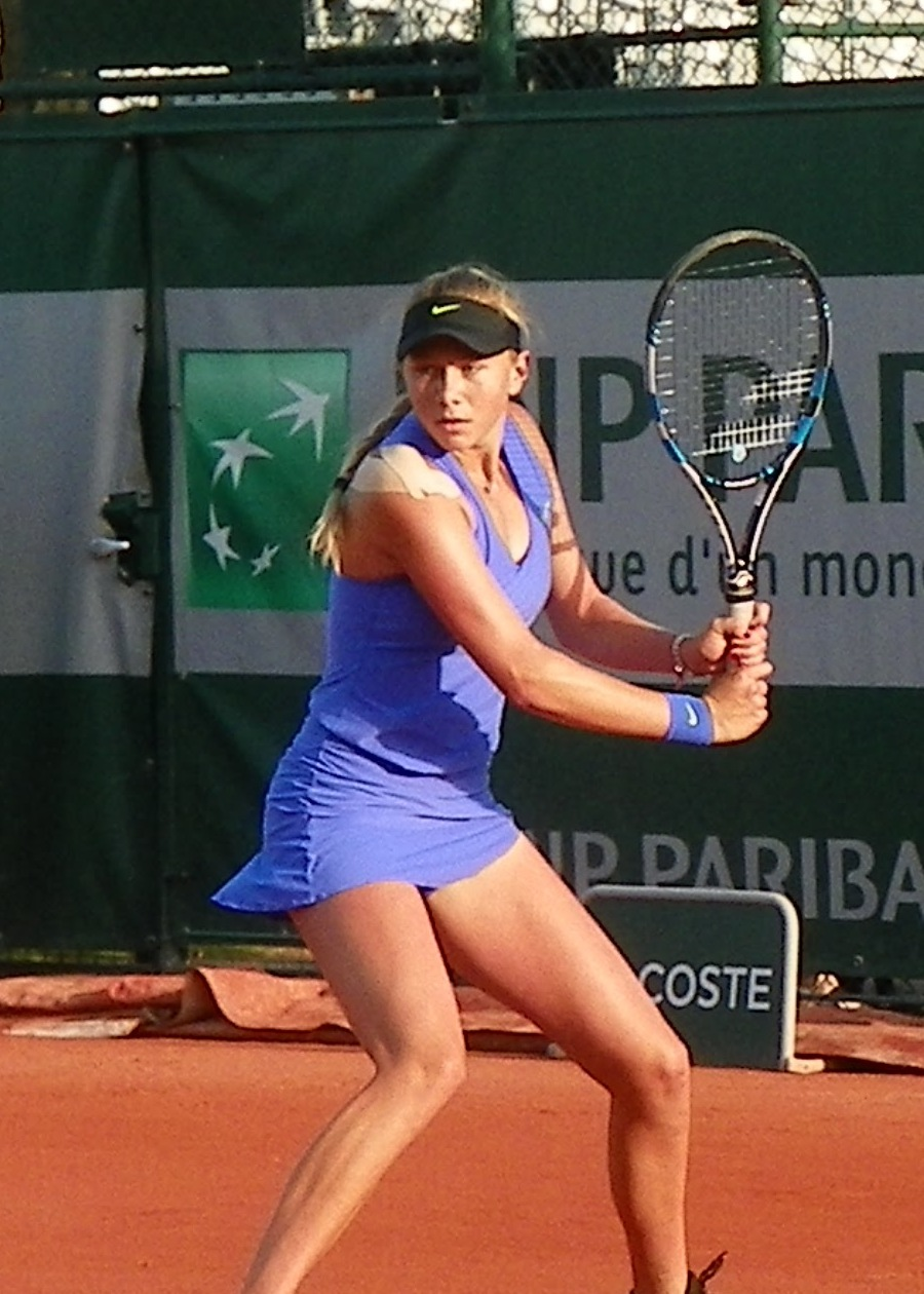 Amanda Anisimova at 2017 French Open